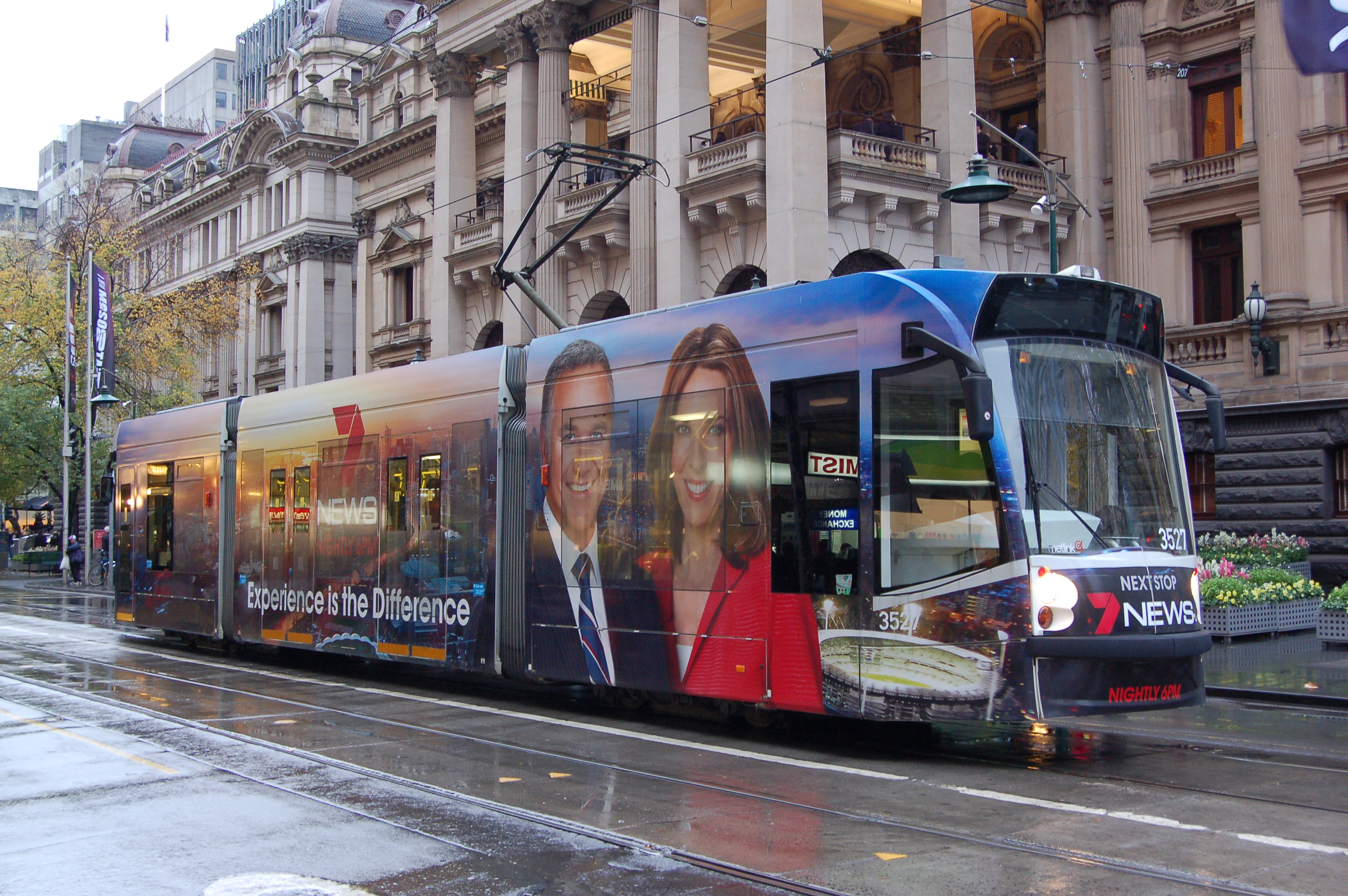 Class D1 Combino tram no 3527 with 7 News wrap livery outside Melbourne Town Hall, Swanston Street, Melbourne, Australia.